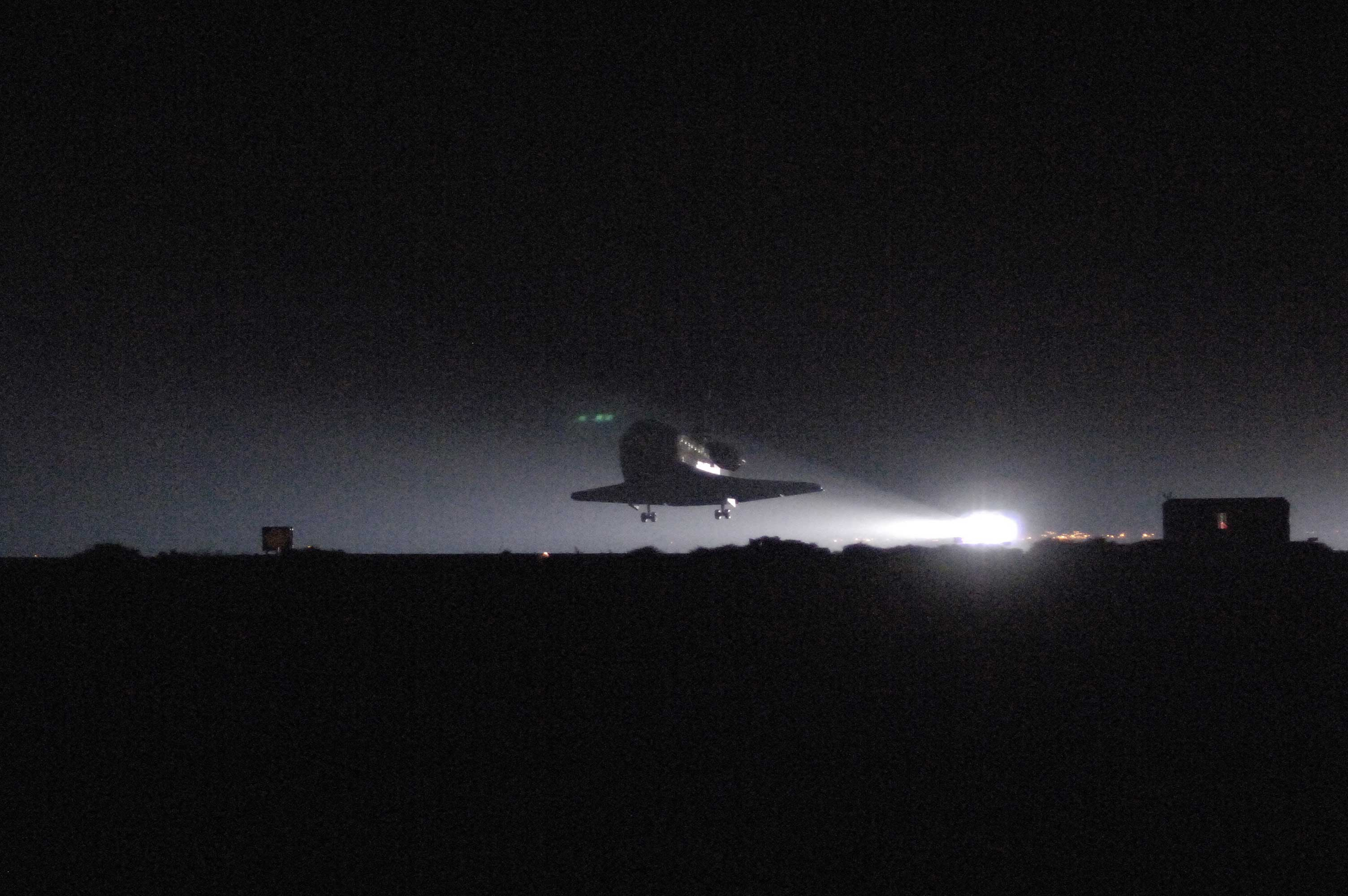 The Space Shuttle Discovery, with its crew of seven astronauts onboard, glides to a pre-dawn landing at Edwards Air Force Base in California. Touchdown occurred at 5:11 a.m. (PDT) August 9, 2005. Astronauts Eileen M. Collins and James M. Kelly, STS-114 commander and pilot, respectively, guided the ship as it made its 17,000 mph descent from space into the morning darkness.